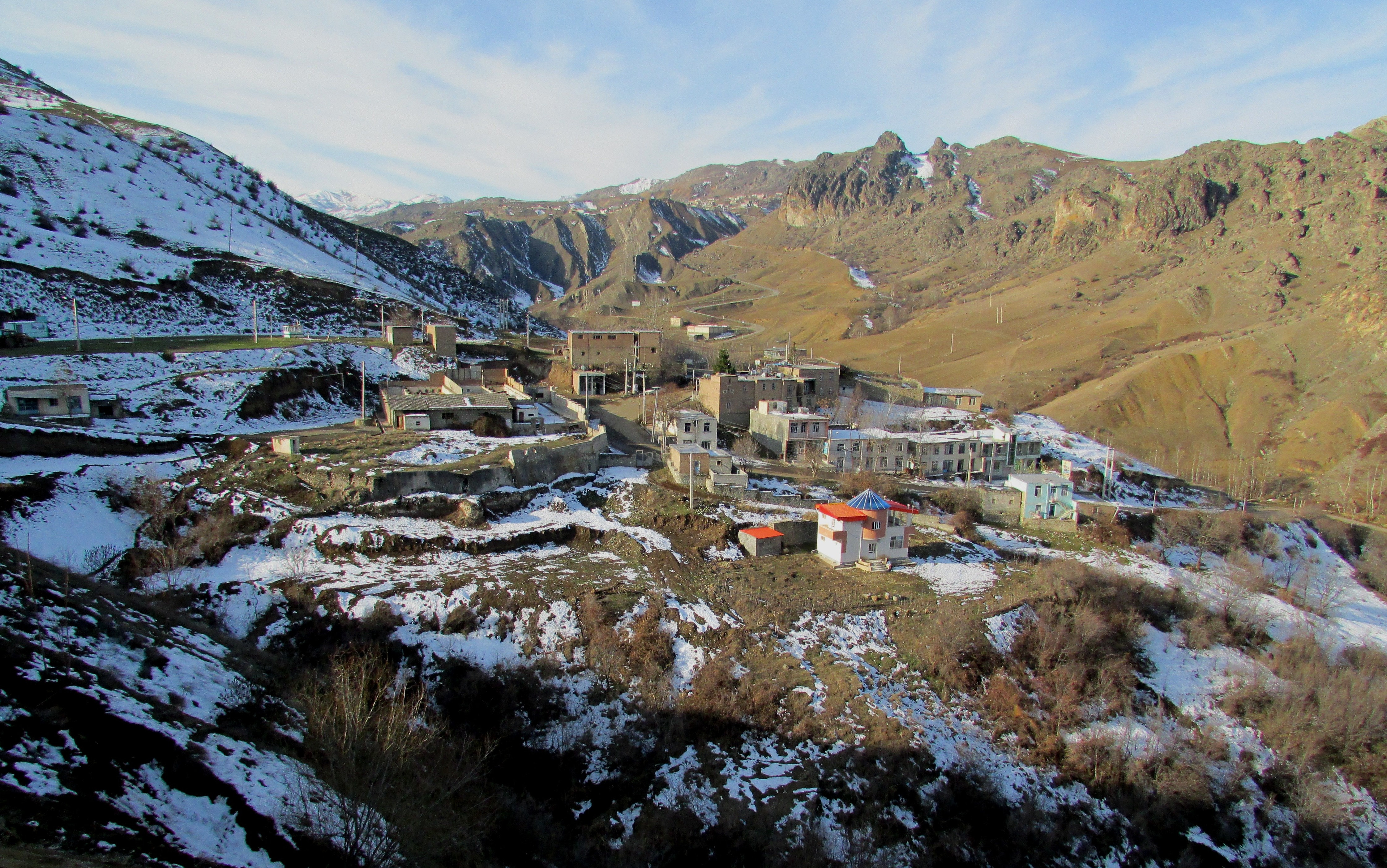 This is a view of Motaalleq village.